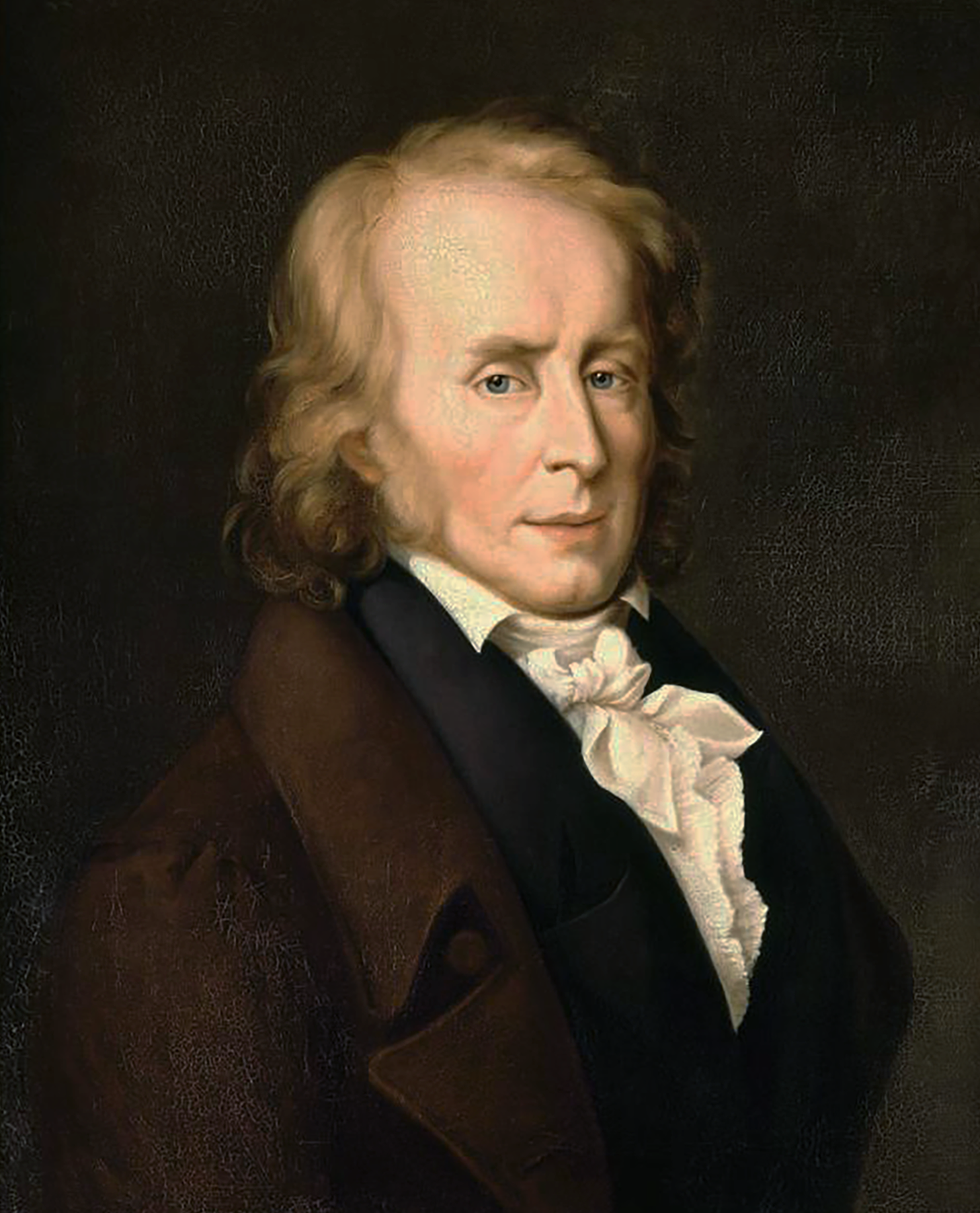 Henri-Benjamin Constant de Rebecque (1767-1830) was a Swiss-born thinker, writer and French politician.